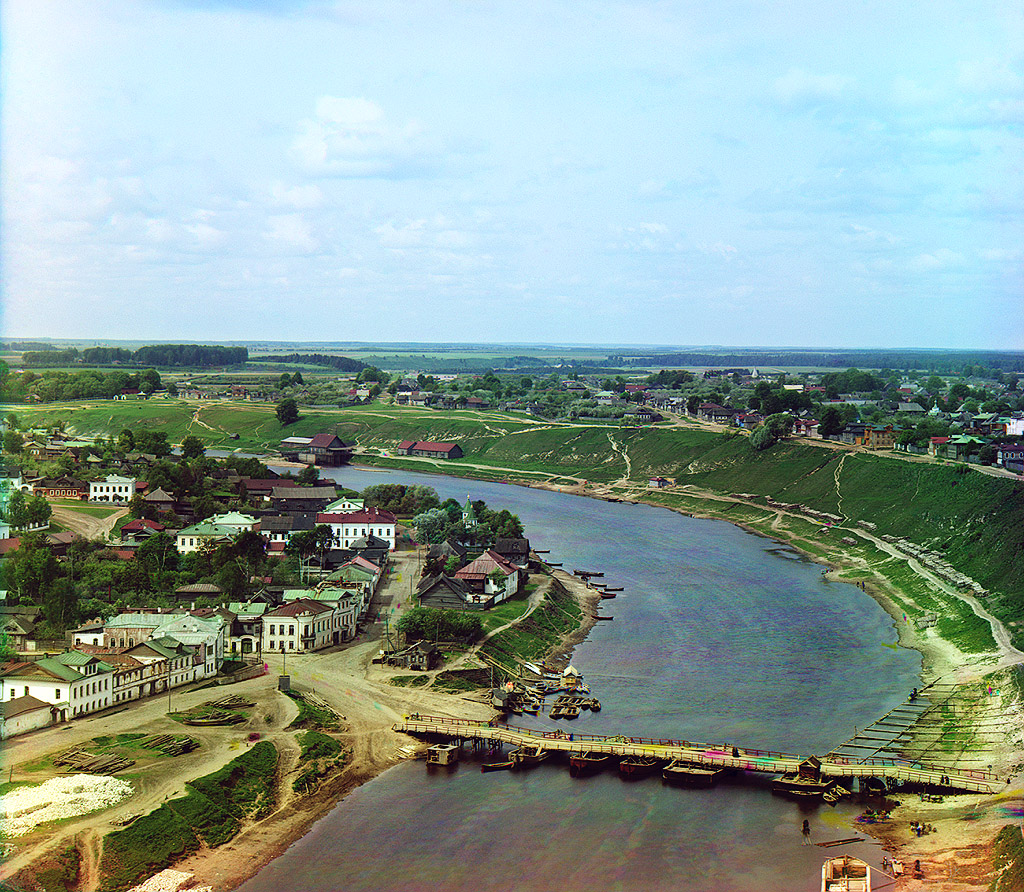 Early color photograph from Russia, created by Sergei Mikhailovich Prokudin-Gorskii as part of his work to document the Russian Empire from 1904 to 1916.The town of Rzhev on the Volga River